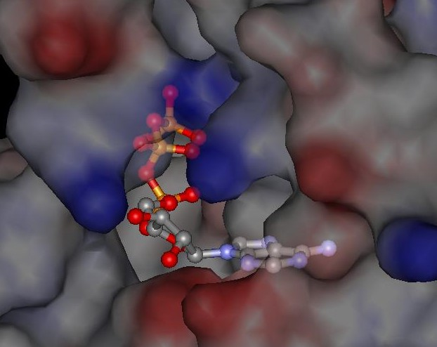 It shows the ATP pocket of Hsp90 containing an ATP molecule. It is based on the PDB entry 2CG9.